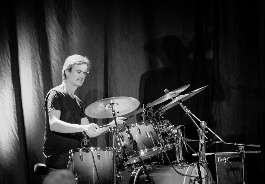 Audun Kleive with Bendik Hofseth at the stage at Thon Hotel Jølster. The concert was part of Jazz på Jølst and took place at Skei on 13. October 2017. Lineup: Bendik Hofseth (saxophone), Helge Iberg (piano), Mats Eilertsen (double bass), Audun Kleive (drums) and Bård Vegard Solhjell (introduction). Introduction by Bård Vegard Solhjell.